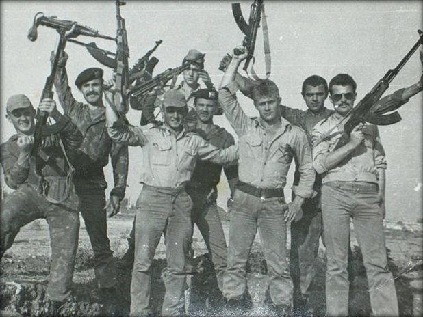 Soviet 231st AA SAM Regiment soldiers salute with their guns in Syria.